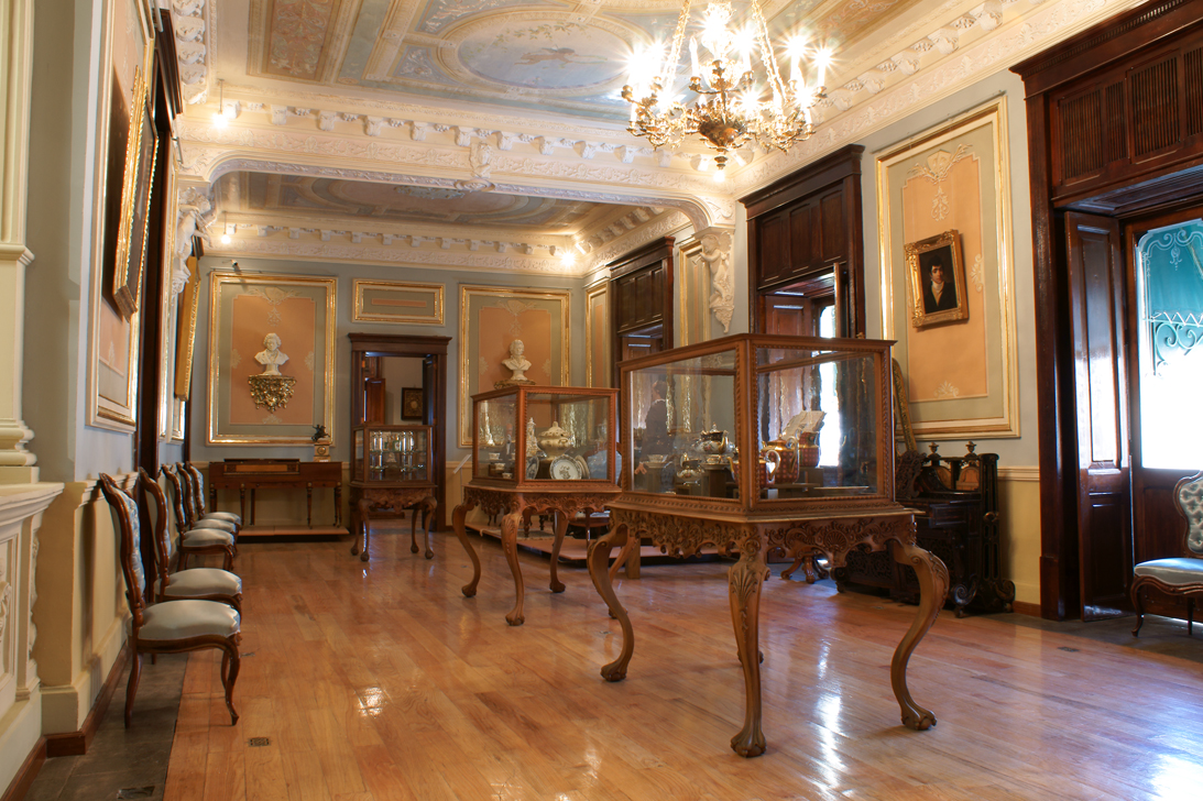 Music room — interior of the Museo José Luis Bello y González, in the City of Puebla, México.